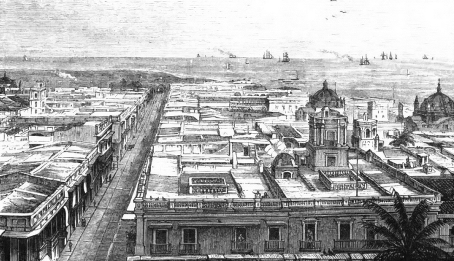 The page number and the name of the illustration is the same as the caption in this book about "Our Next-Door Neighbor: A Winter In Mexico" (1875). Follow the link from the image to see the entire book.